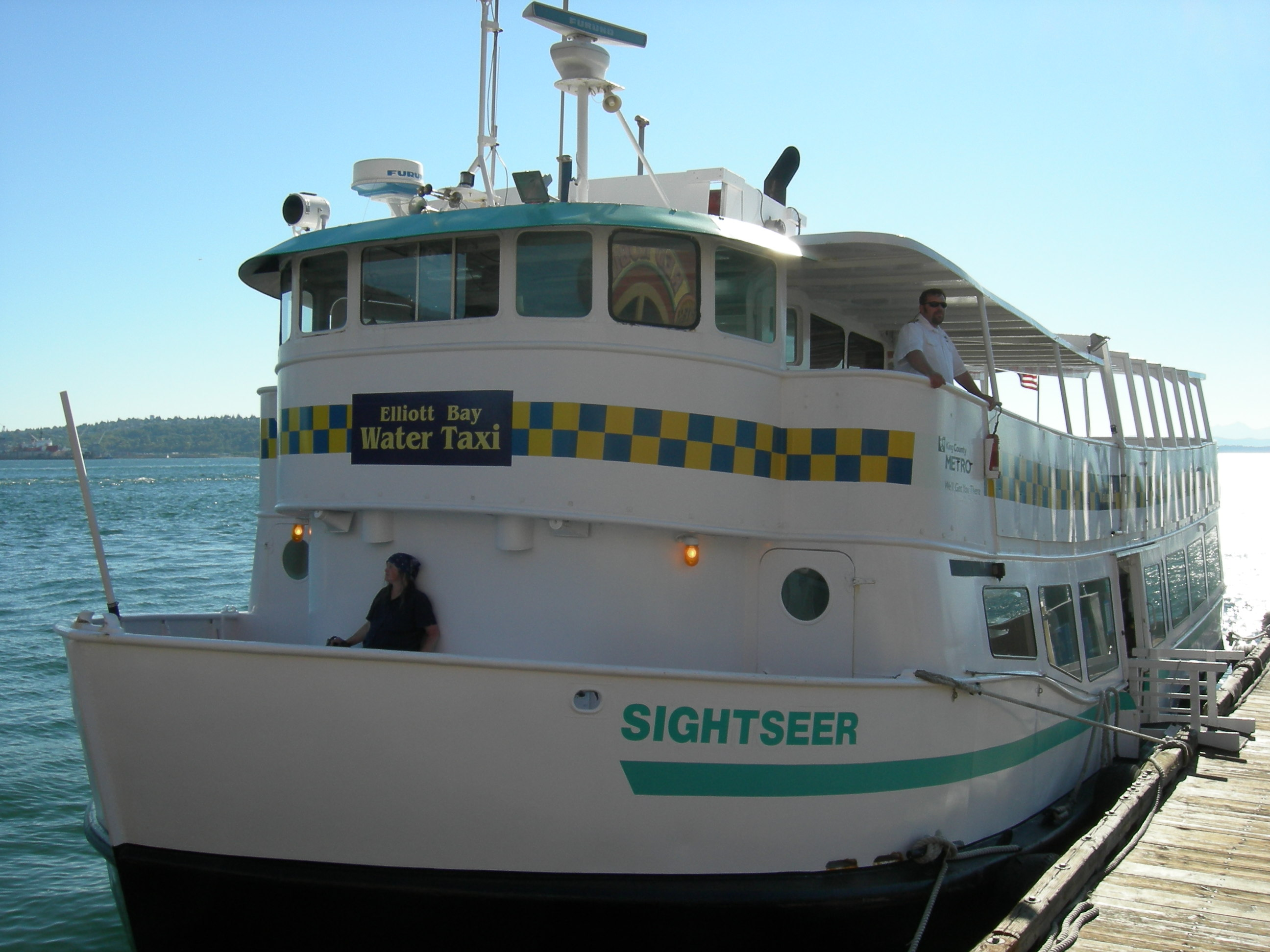 Elliott Bay Water Taxi, operated by Argosy Cruises, Seattle, Washington, docked at Pier 55 on the Downtown Seattle waterfront. From there, it crosses the bay to Seacrest Park in West Seattle.